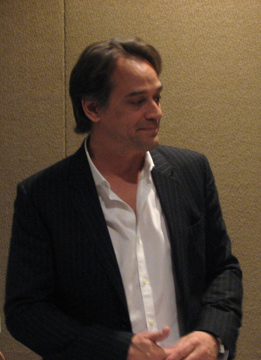 (Photo taken at the 2009 "As The World Turns" Fan Luncheon held in New York City.)